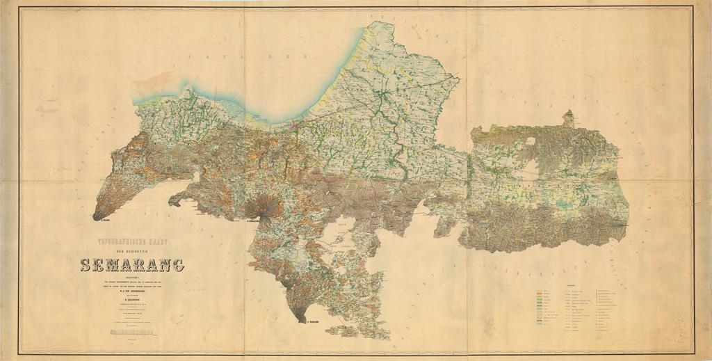 Topographic Chart of the Semarang Residency in Dutch East Indies, from 1889